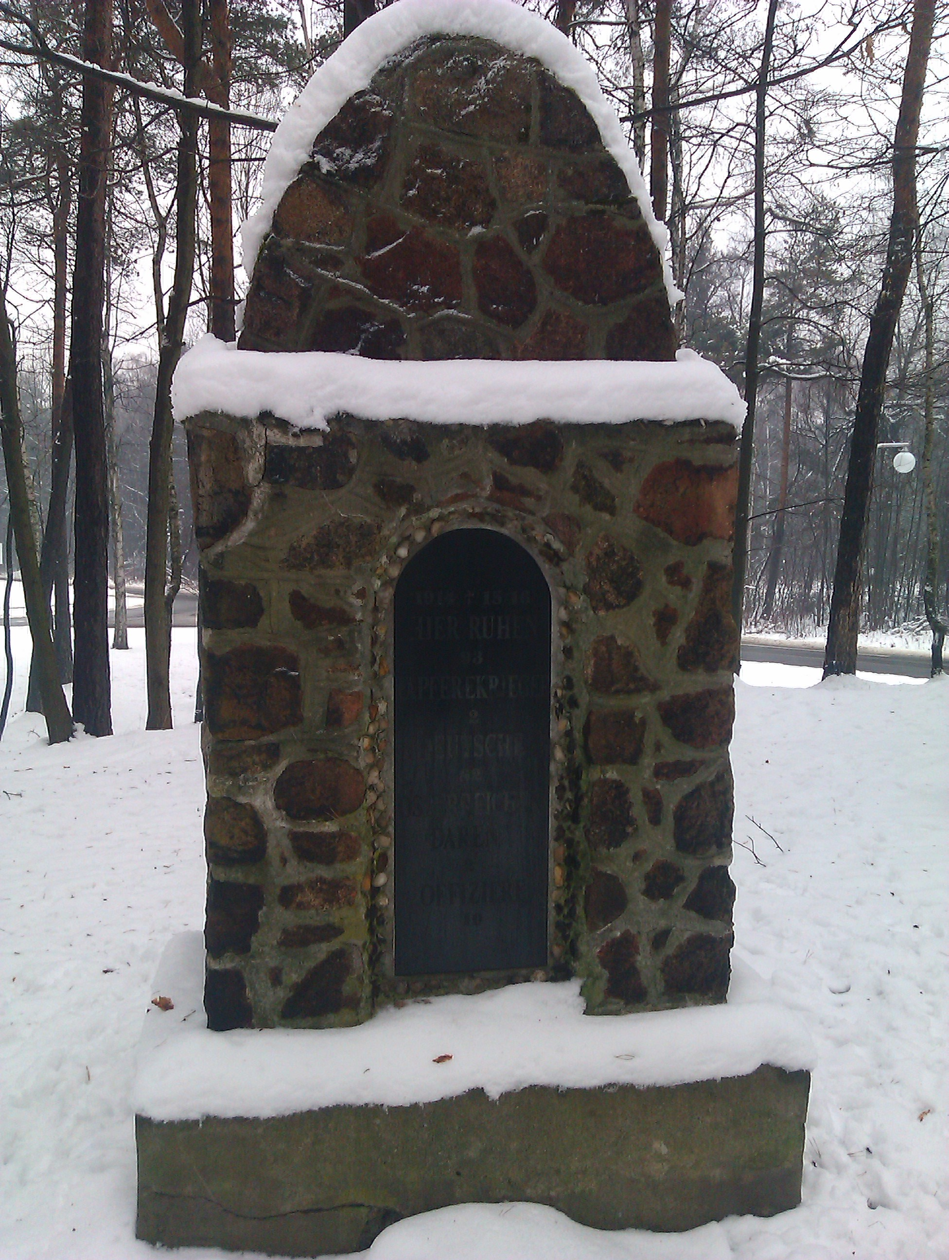 A Stone Obelisk